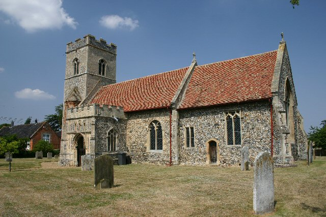 Church of All Saints in Honington, Suffolk, England. A Grade I listed medieval church.